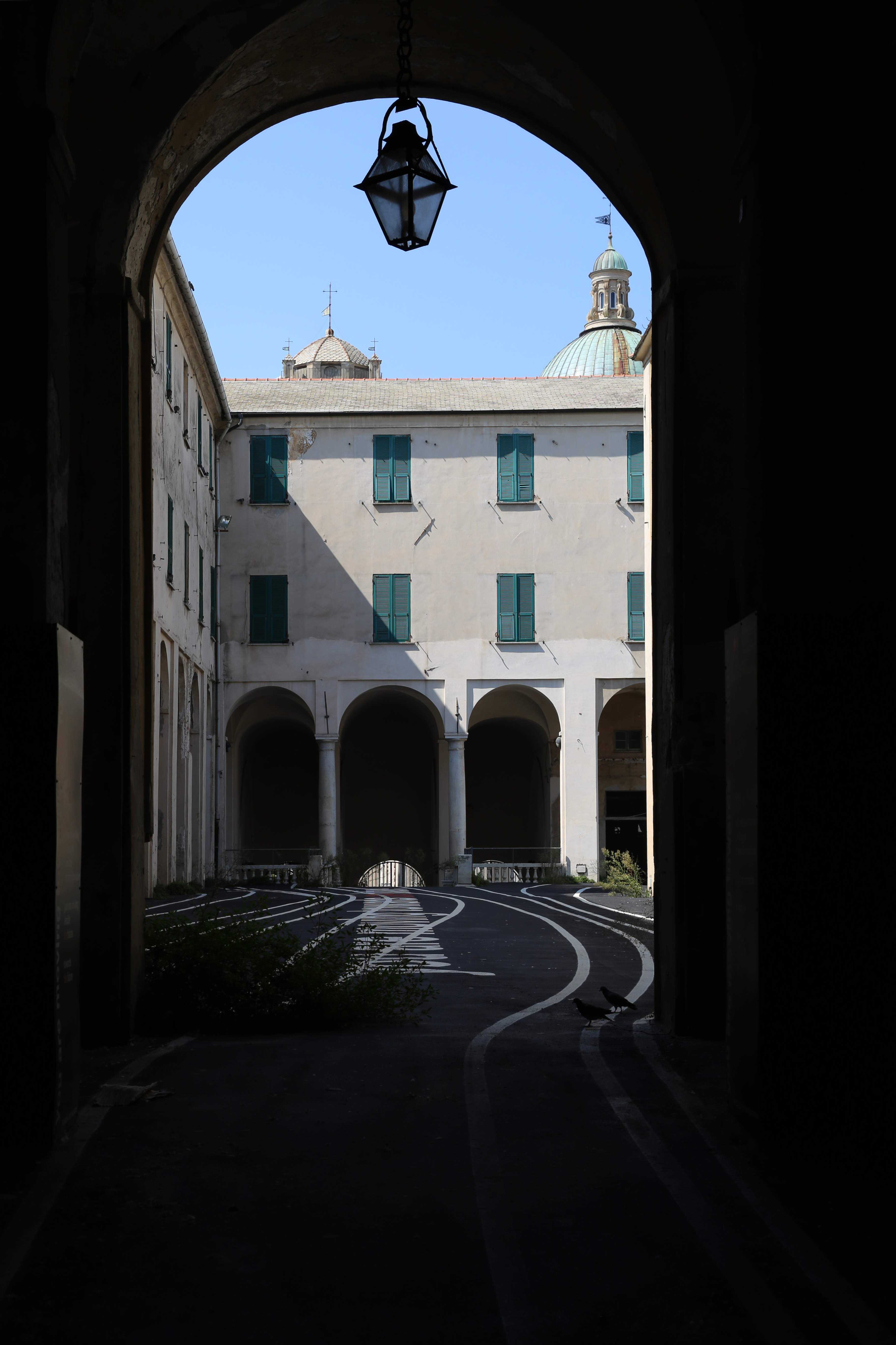 Savona